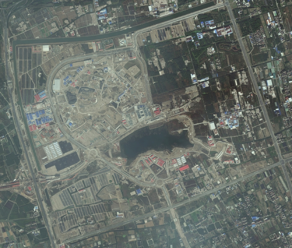 Satellite view of the Shanghai Disney Resort construction site.